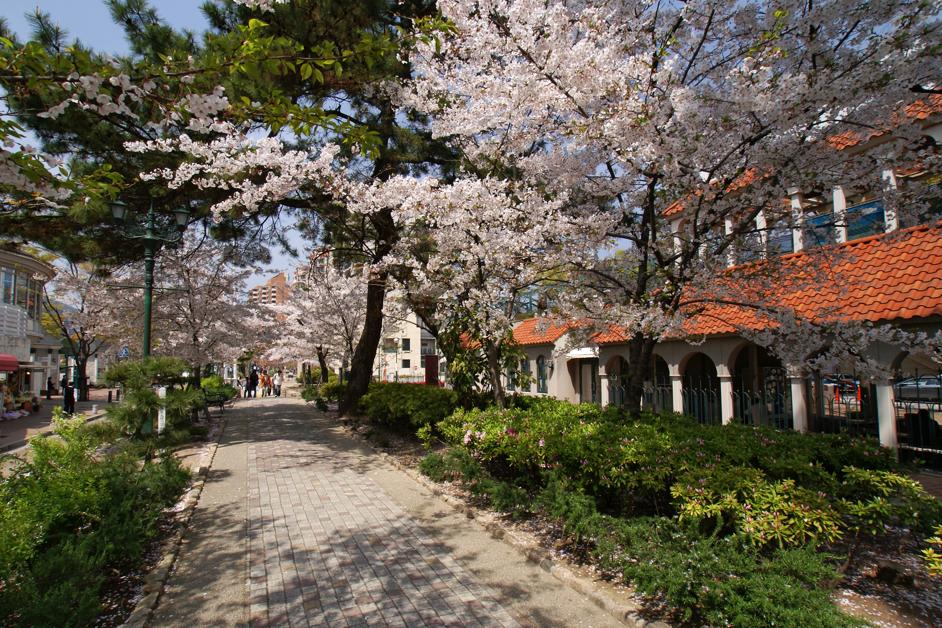 Hana-no-michi street in Takarazuka, Hyogo prefecture, Japan